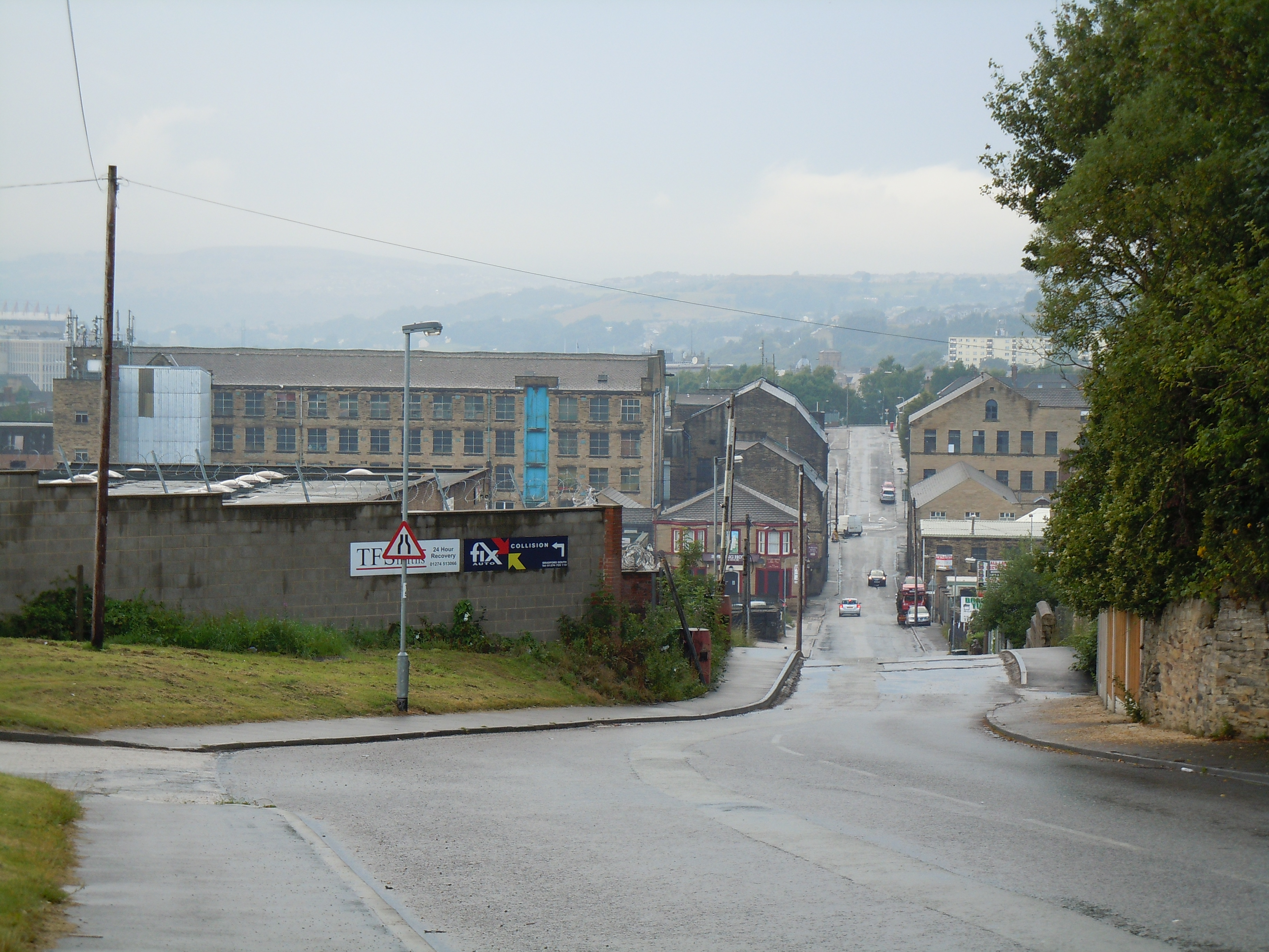 View of Broomfields from Hall Lane Other information Ladywell, Hall Lane and Globe mills in mid ground. Wall of Blucher mine to righyt